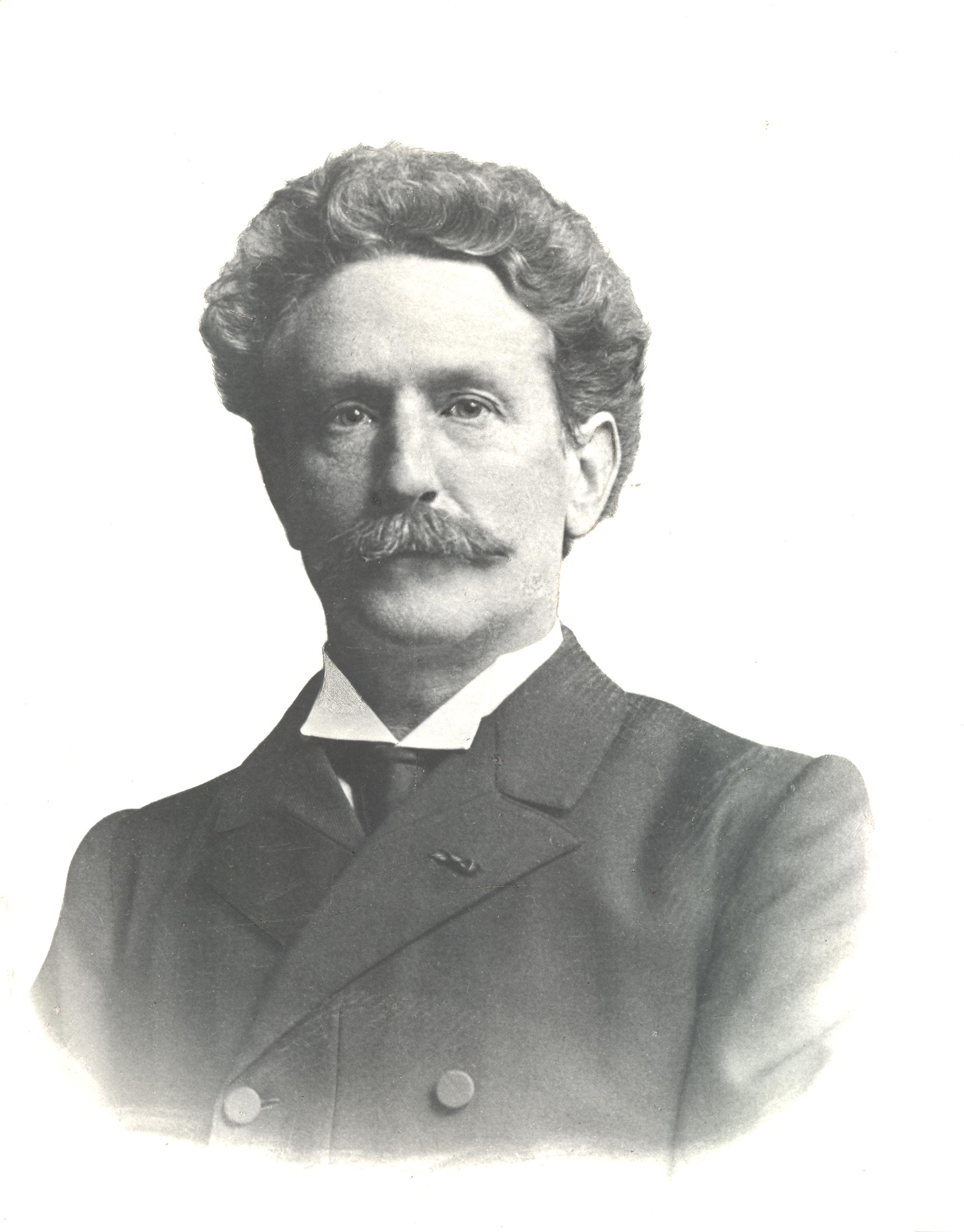 Jacobus Marinus Janse (born in Middelburg 9 Febr 1860; died in Zeist 31 March 1938). Director of the Hortus Botanicus Leiden, rector magnificus of Leiden University. Photograph probably made between 1905 and 1920